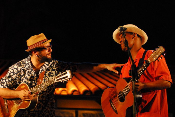 Francesco Piu and Eric Bibb. Ph: Peppuccio Trudu